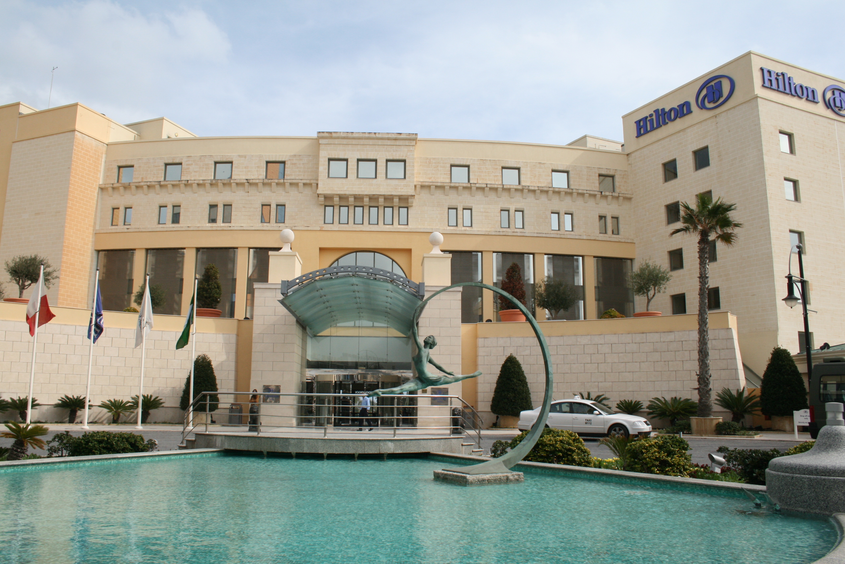 Hilton Malta